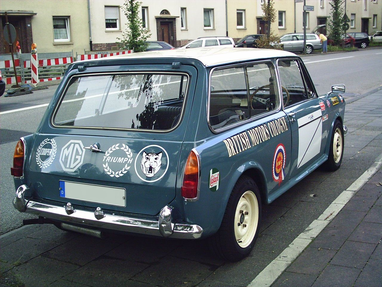 Austin 1300 (?) in Cologne, Germany check usage